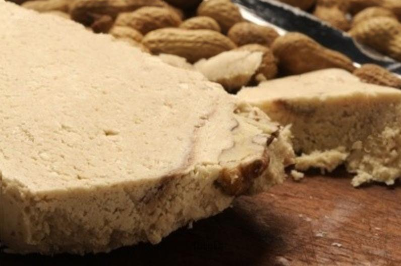 A piece of Mantecol, with nuts.